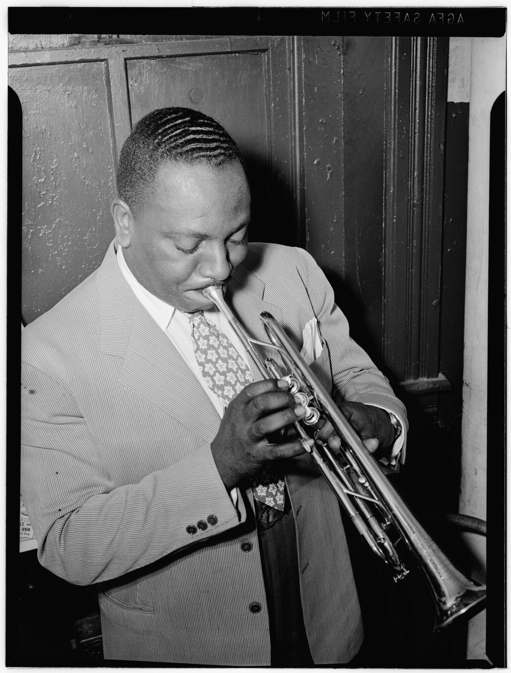 Cootie Williams